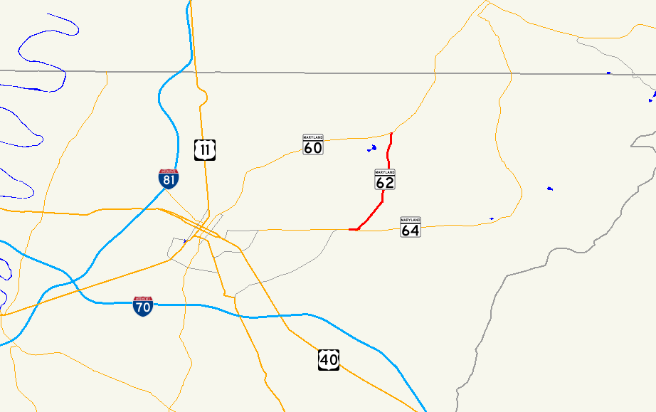 Map of Maryland Route 62